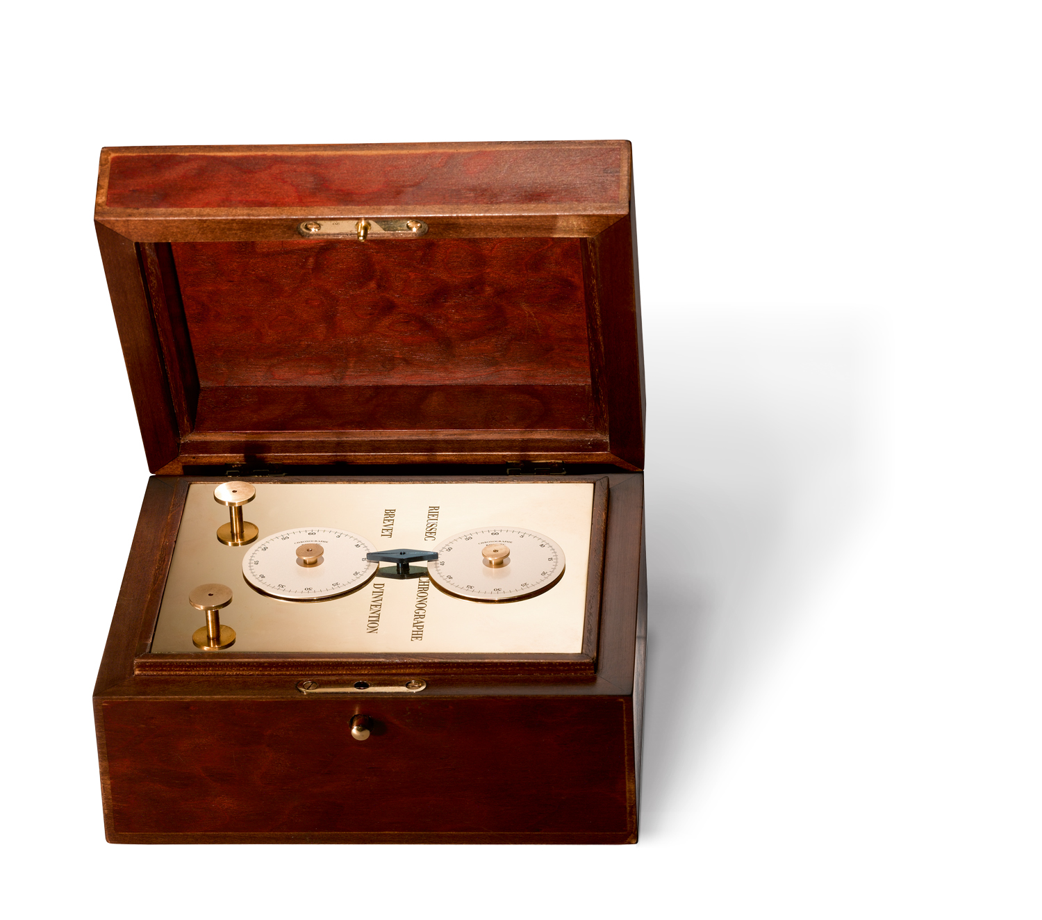 Here you see the original chronograph invented by Nicolas Rieussec in 1821